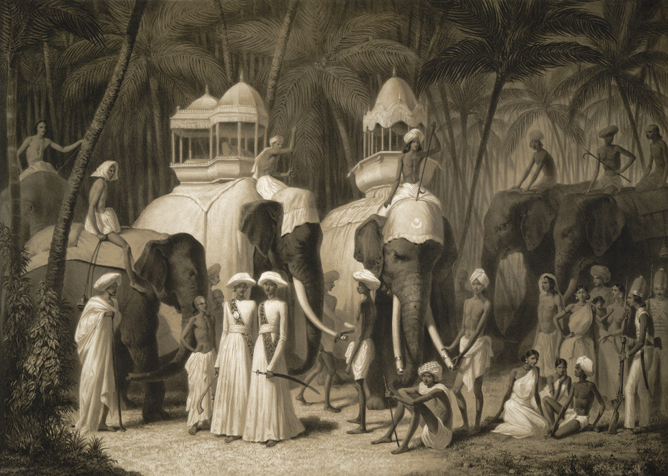 Lithograph of the Raja of Tranvancore's elephants at Trivandrum in Kerala by L.H. de Rudder (1807-1881) after an original drawing of May 1841 by Prince Aleksandr Mikhailovich Saltuikov published in 1848. Prince Saltuikov visited Trivandrum in August 1841 and noted several details about his meeting with the Hindu Maharaja of Travancore. He wrote that the Raja received his guest on his throne, was not more than 25 or 27 years of age and gave his guest two Indian drawings. This image falls into the public domain as it was taken in India prior to 1 January 1951, and was not published in India after that date. It is in public domain in the United States as well as it was taken prior to 1 January 1951.